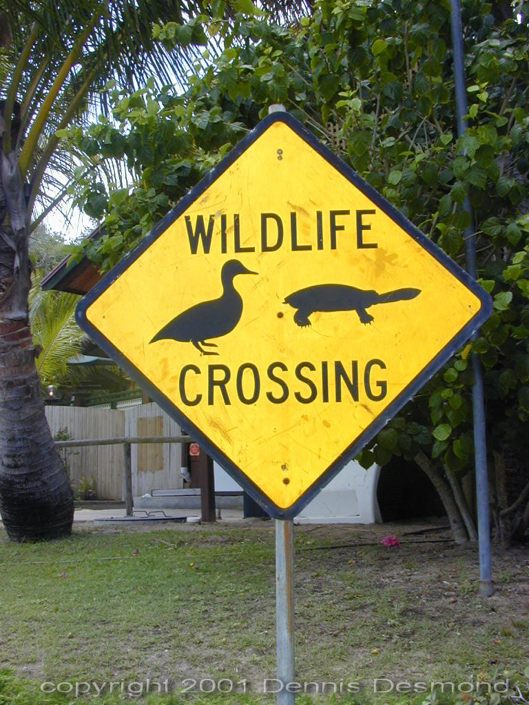 Wildlife Crossing sign on Fraser Island, Australia